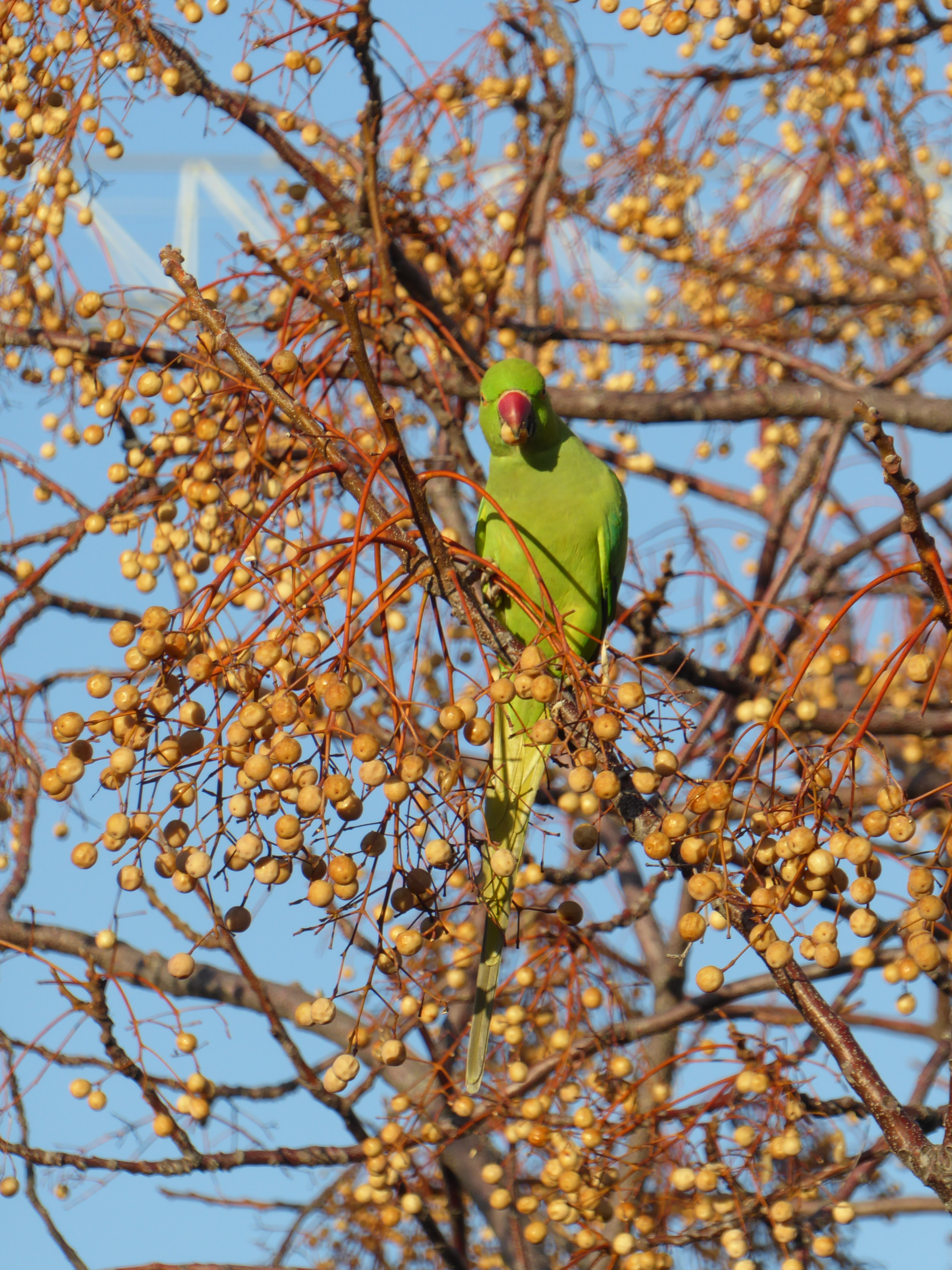 Animals of Israel